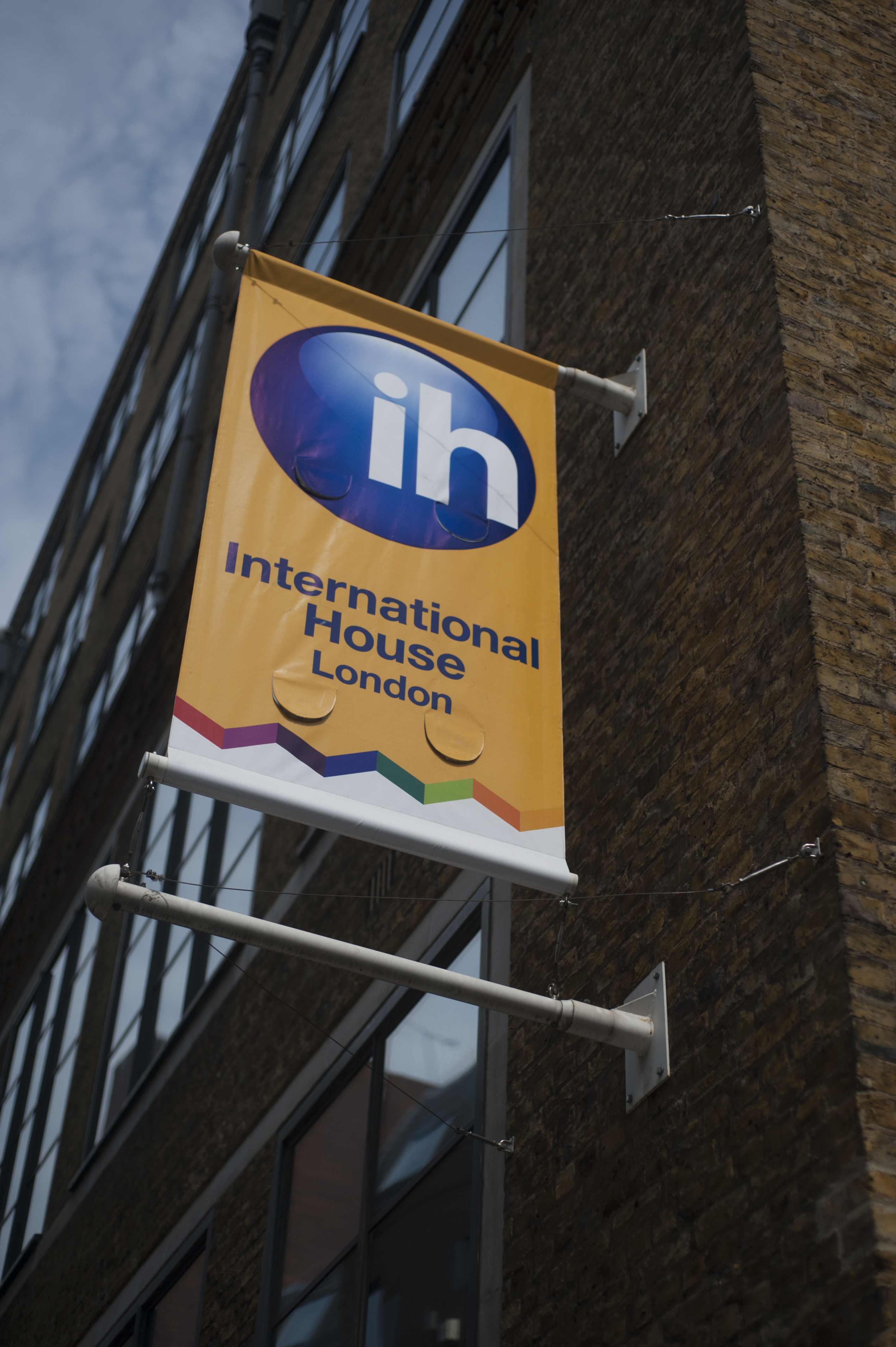 International House London language school, 16 Stukeley Street, Covent Garden, London